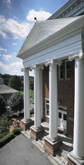 Carnegie Hall, Inc. building during day